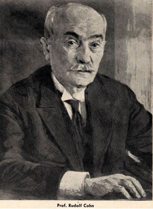 Rudolf Cohn (1862 - 1938) was Professor on the Albertus University of Koenigsberg, Prussia, todays Kaliningrad As juif, he had to leave K. in 1933 and went to Palaestina. This picture is a photo of a painting by Heinrich Wolff, academy of science Koenigsberg out of a newspaper 1971 see below